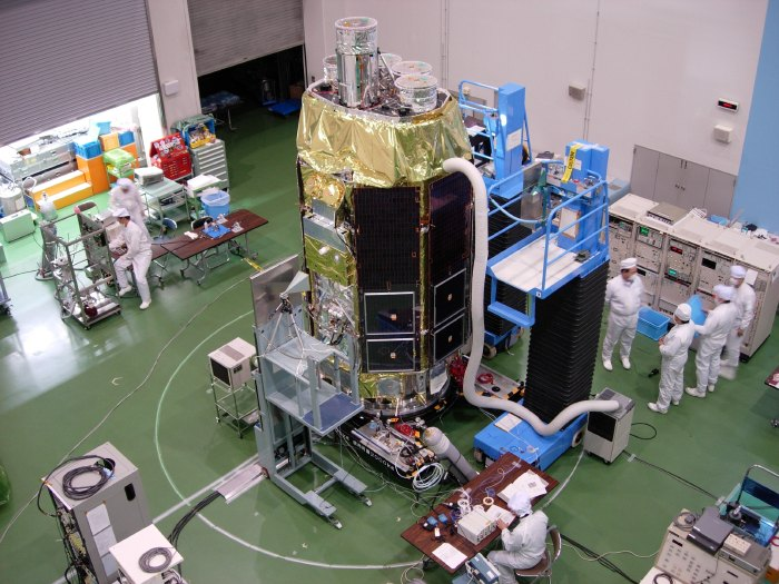 This was probably during a communication test; notice the horn-shaped radio antenna to the left of the spacecraft. The white tube is for blowing cold air, since the clean room is warmer than the depths of space.